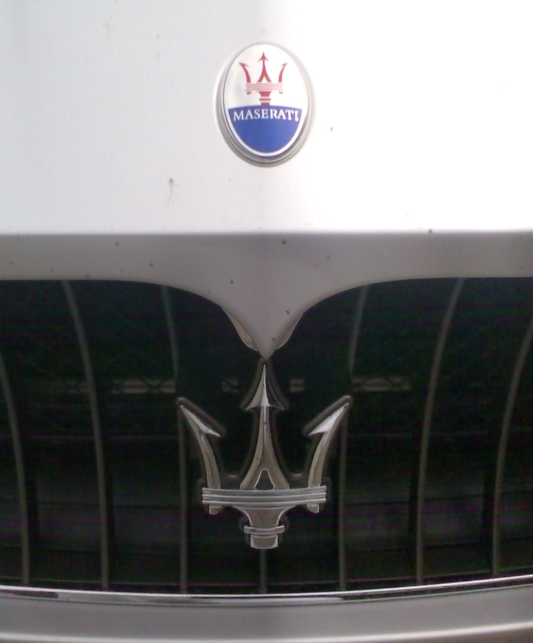 Trident logotype of Maserati, Italian luxury sport car